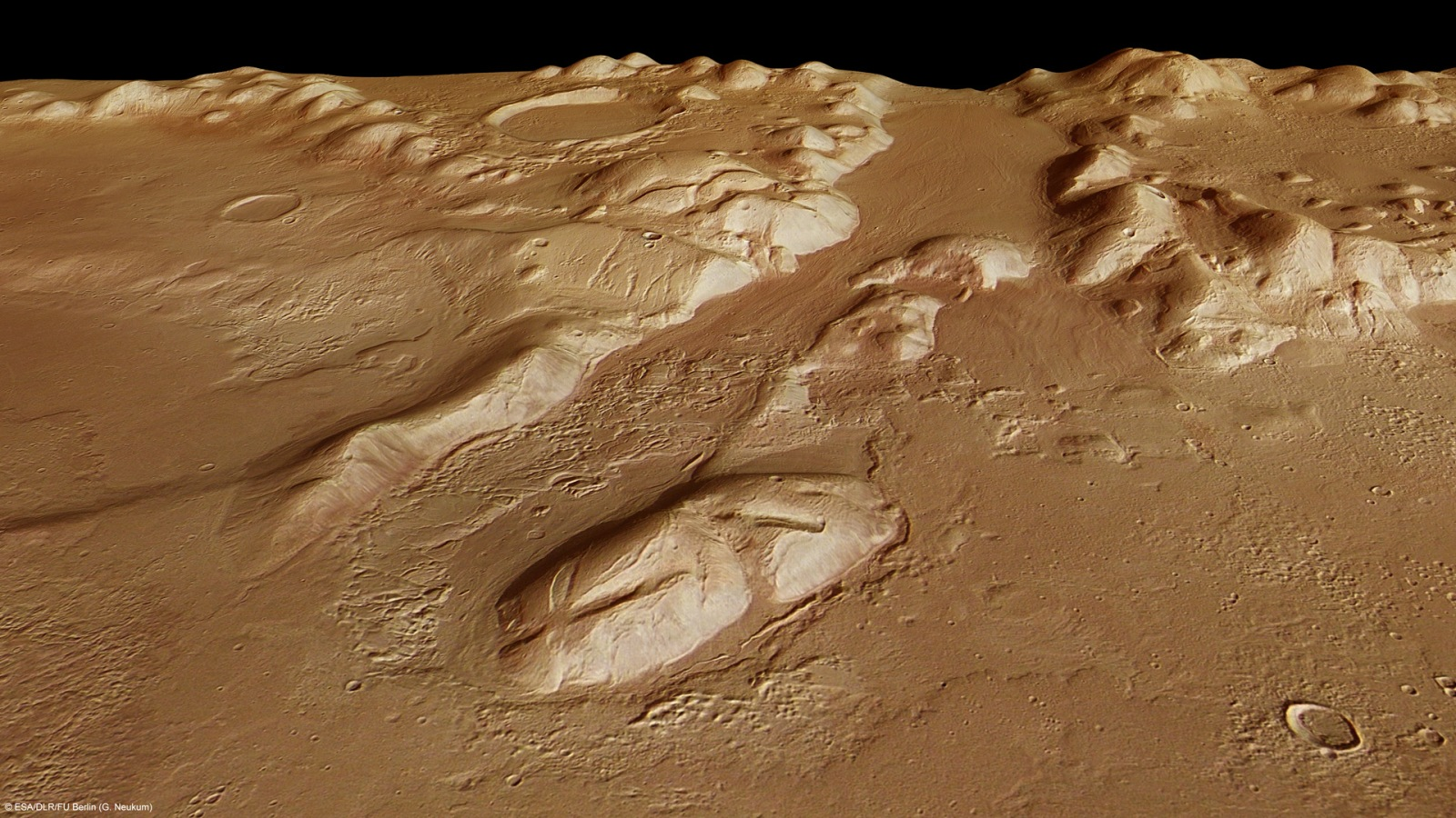 Phlegra Montes is a range of gently curving mountains and ridges on Mars. They extend from the northeastern portion of the Elysium volcanic province to the northern lowlands. The High-Resolution Stereo Camera on ESA’s Mars Express collected the data for these images on 1 June 2011 during orbit 9465. This perspective view has been calculated from the Digital Terrain Model derived from the stereo channels. For higher resolution and more great images from Mars Express, please visit: Credit: ESA/DLR/FU Berlin (G. Neukum), CC BY-SA 3.0 IGO Copyright Notice: This work is licenced under the Creative Commons Attribution-ShareAlike 3.0 IGO (CC BY-SA 3.0 IGO) licence. The user is allowed to reproduce, distribute, adapt, translate and publicly perform this publication, without explicit permission, provided that the content is accompanied by an acknowledgement that the source is credited as 'ESA/DLR/FU Berlin’, a direct link to the licence text is provided and that it is clearly indicated if changes were made to the original content. Adaptation/translation/derivatives must be distributed under the same licence terms as this publication. To view a copy of this license, please visit